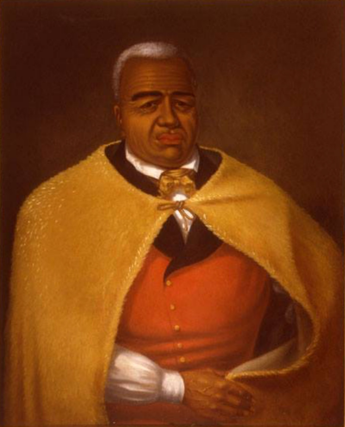 Portrait of Kamehameha III based on the original life depiction by Louis Choris. The painting was done by James Gay Sawkins in 1850 and is apparently the only historical one that depicts the king in the ʻahu ʻula. It hangs in the Grand Hall of Iolani Palace.